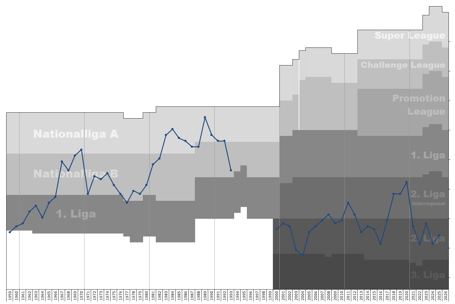 Chart of end-season table positions of FC Wettingen in the Swiss football league system. Data source: RSSSF, , football.ch